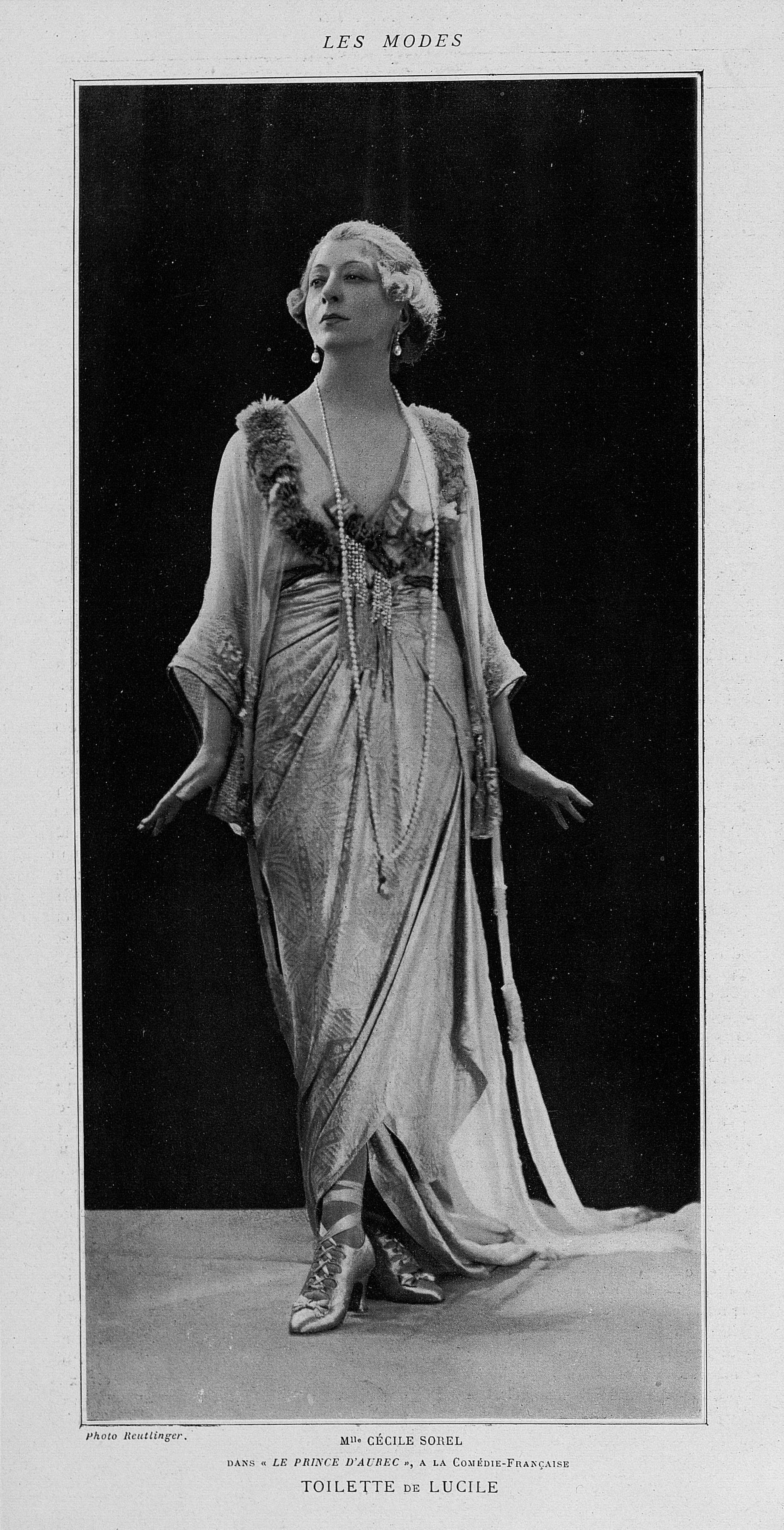 Cécile Sorel, in 1920, by Reutlinger.